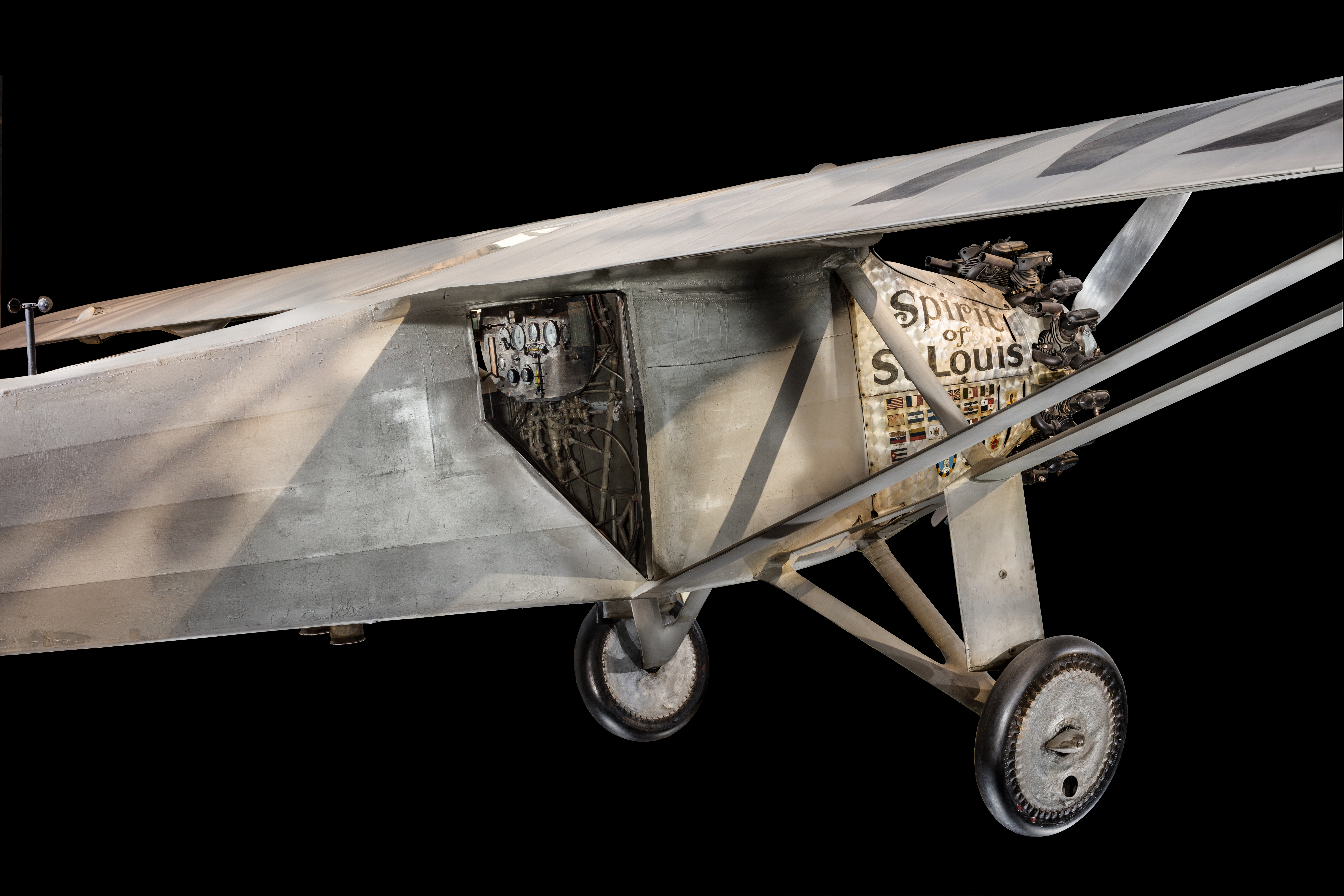 Ryan NYP "Spirit of St. Louis" (A19280021000) on display in the Boeing Milestones of Flight exhibit (Gallery 100), Smithsonian National Air and Space Museum, Washington, D.C., June 29, 2016. Photo by Eric Long. [3T8A4136.2][NASM2016-02746]